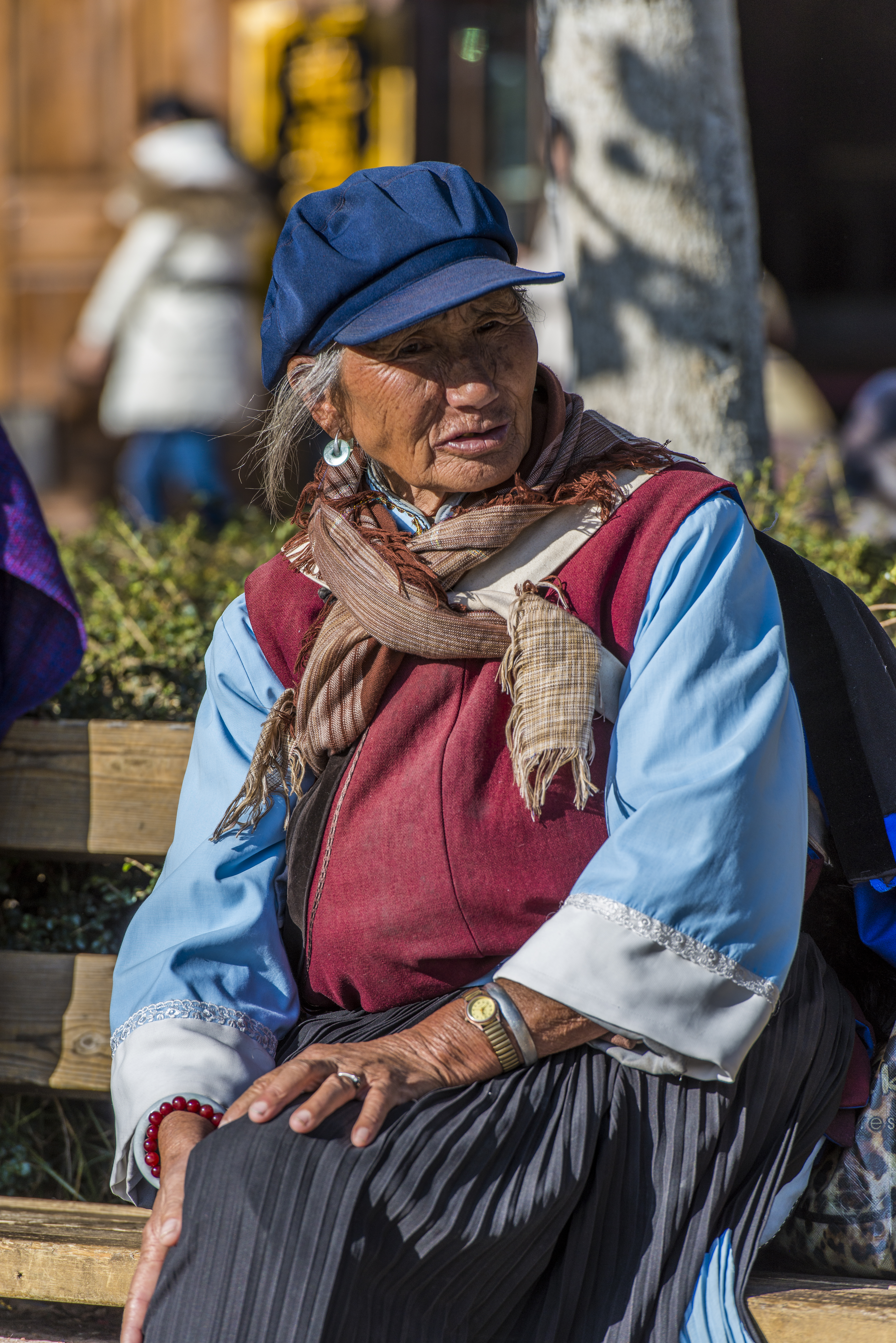 native old woman naxi nakhi minority lijiang old town yunnan china 2012 unesco